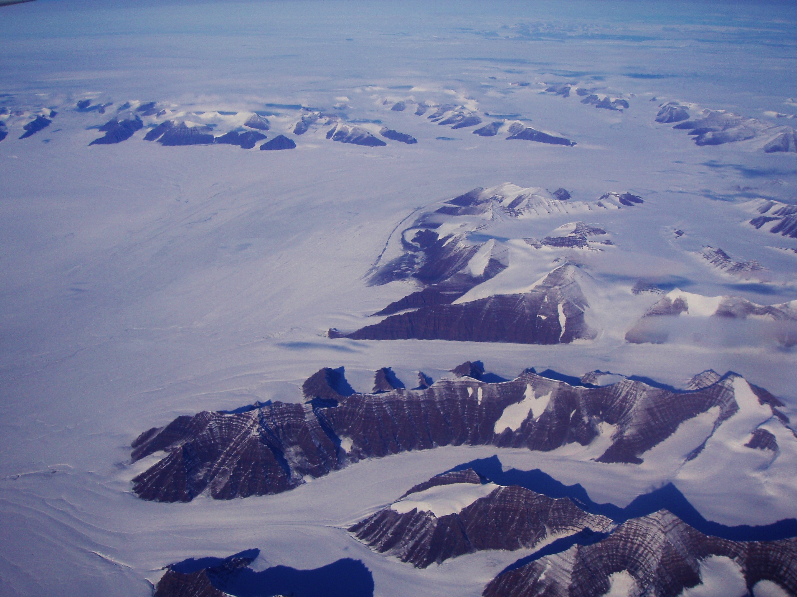 The southward bend in the broad Christian IV Glacier with the Gronau Nunataks in the background and the northwestern part of the Watkins Range on the right. E Greenland. Pilt on tehtud septembris 2012 lennates lennukiga New Yorki üle Gröönimaa. Foto kujutab Gröönimaa maastikku. Pildi autor: Katerin Peärnberg Foto pole varem avalikkusele kättesaadavaks tehtud.